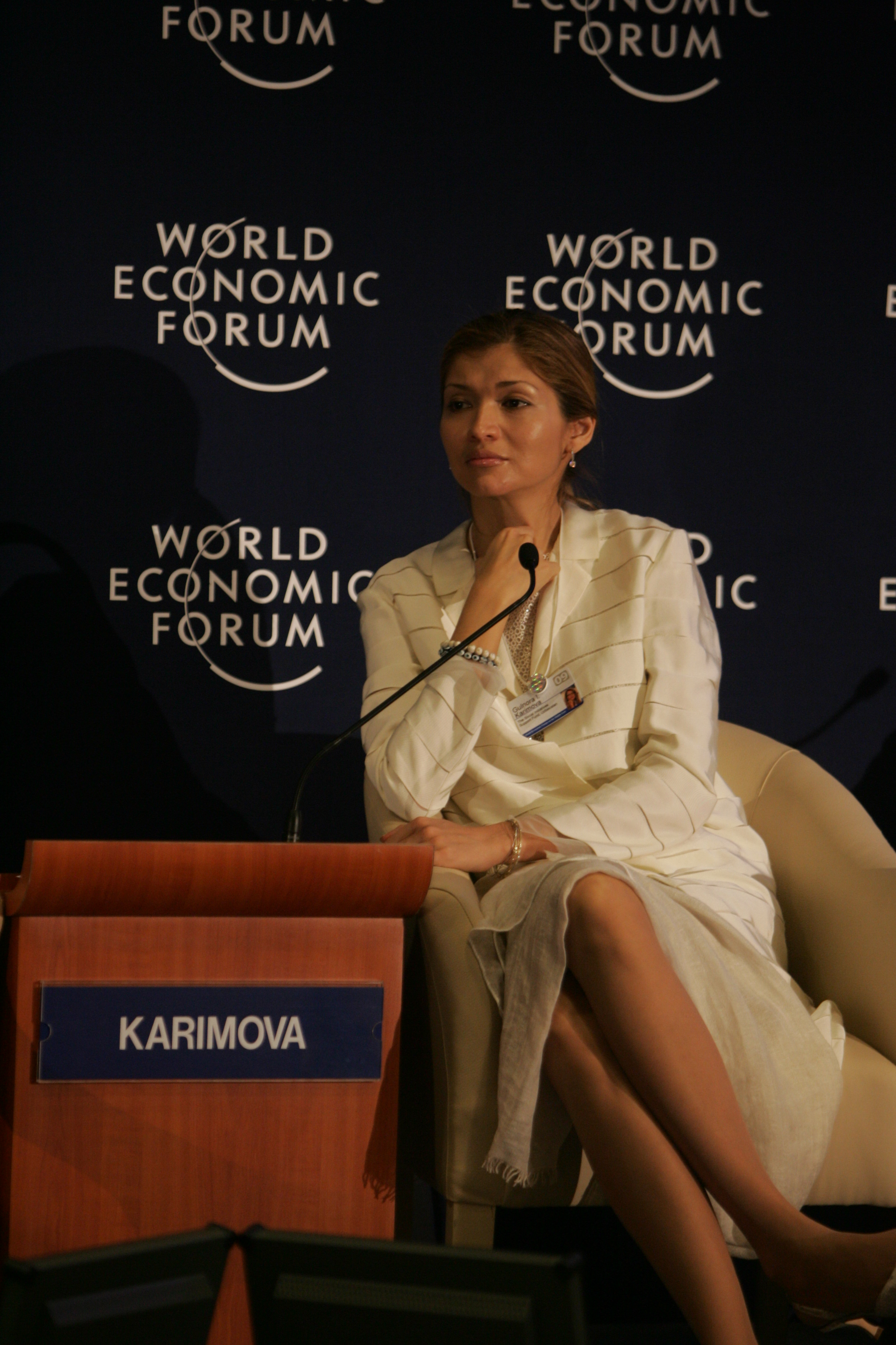 DEAD SEA/JORDAN,17MAY09 - Gulnora I. Karimova, Chairperson of the Board of Trustees, The Social Initiatives Support Fund, Uzbekistan captured during the Soft Touch of the Middle East at the World Economic Forum on the Middle East 2009